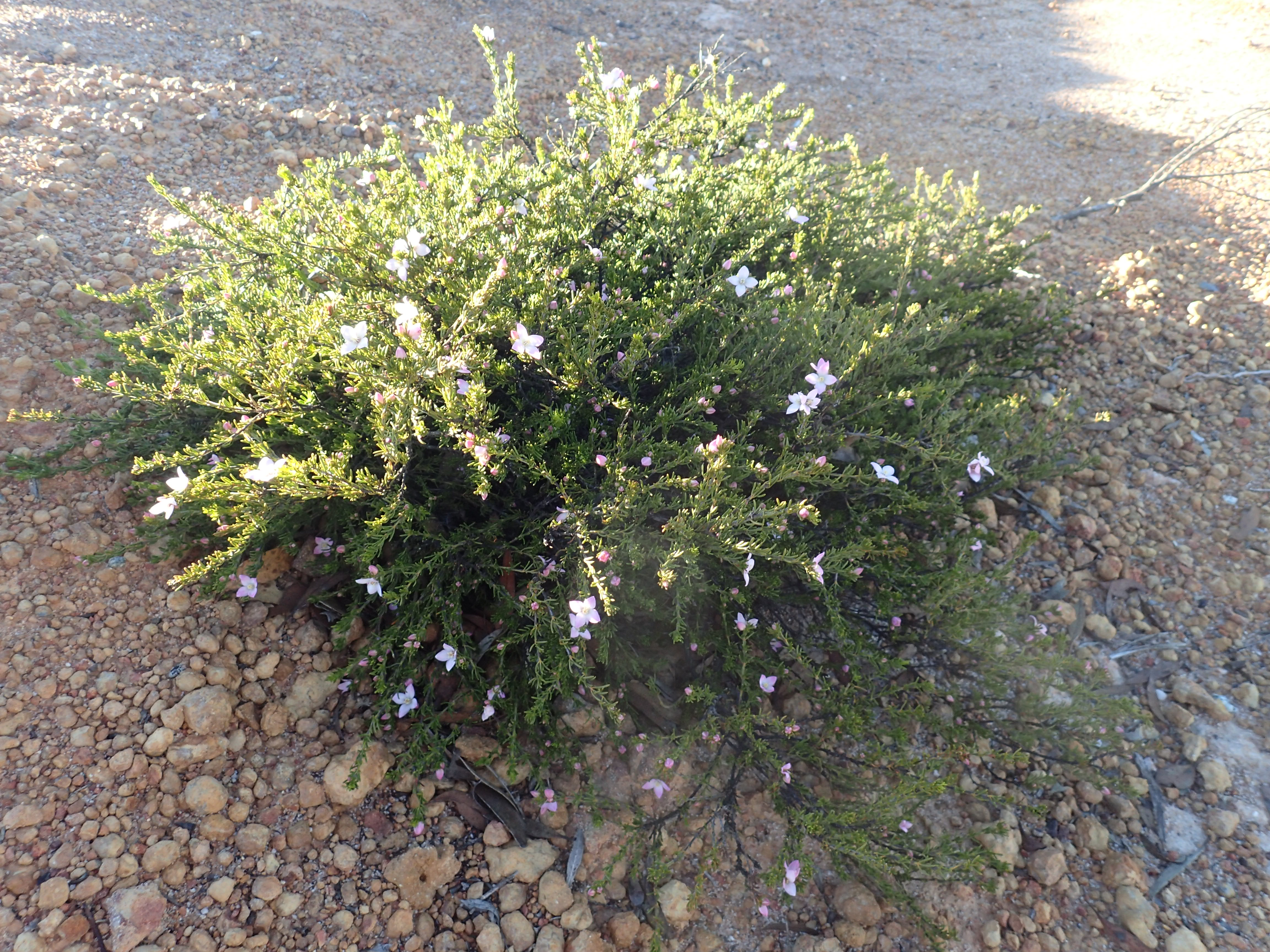 Boronia oxyantha growing in a roadside drain near the old Elverdton gold mine on the Ravensthorpe-Hopetoun Road